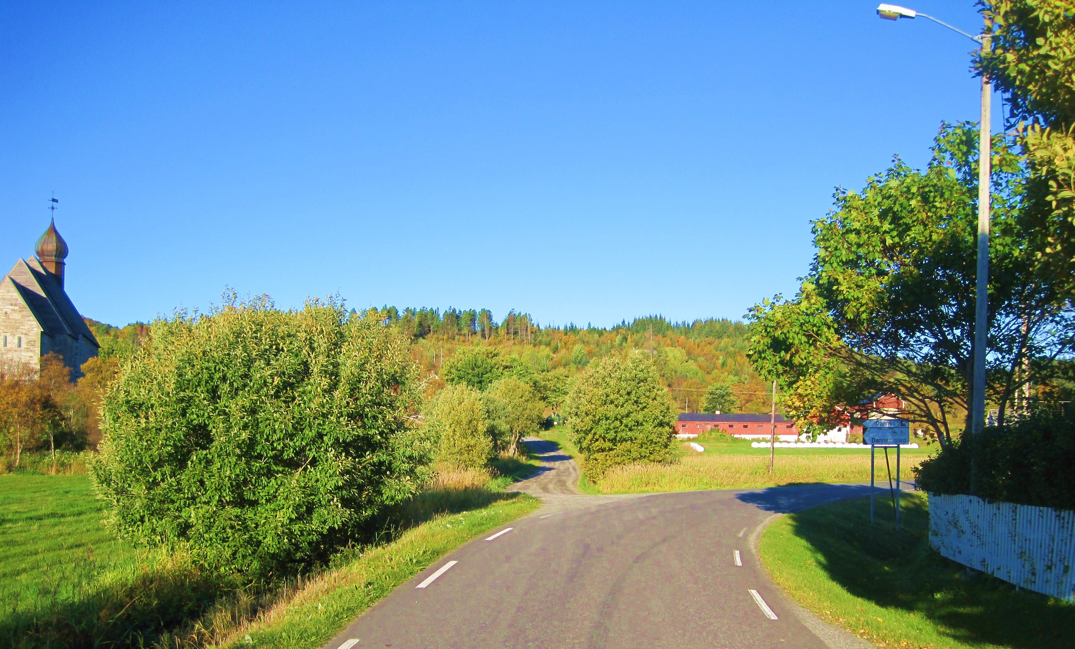 Veikrysset inn til Dønnes Gård